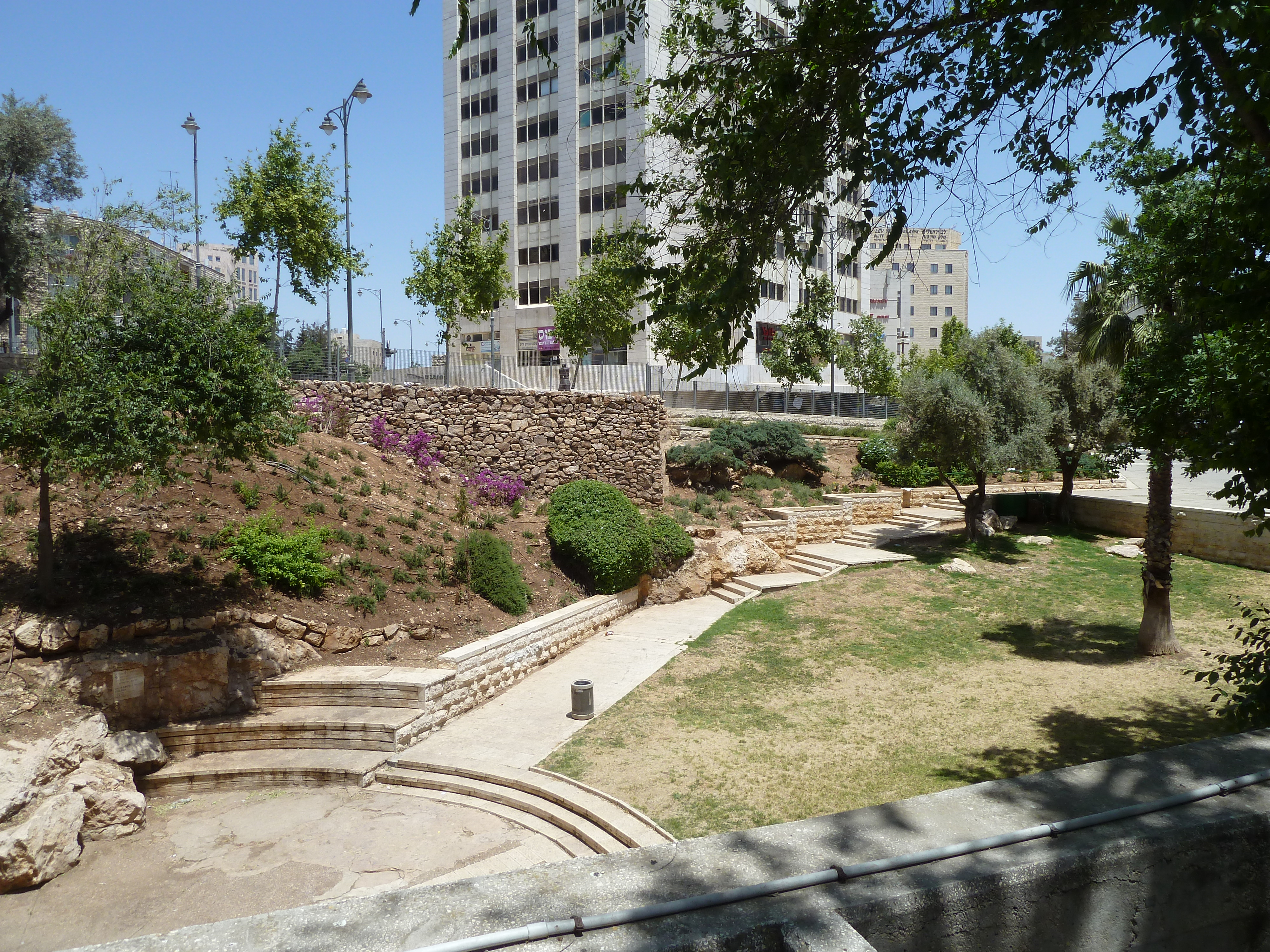 Menorah Garden (Gan HaMenora) (also, Horse Garden - Gan HaSus), Jerusalem, Israel